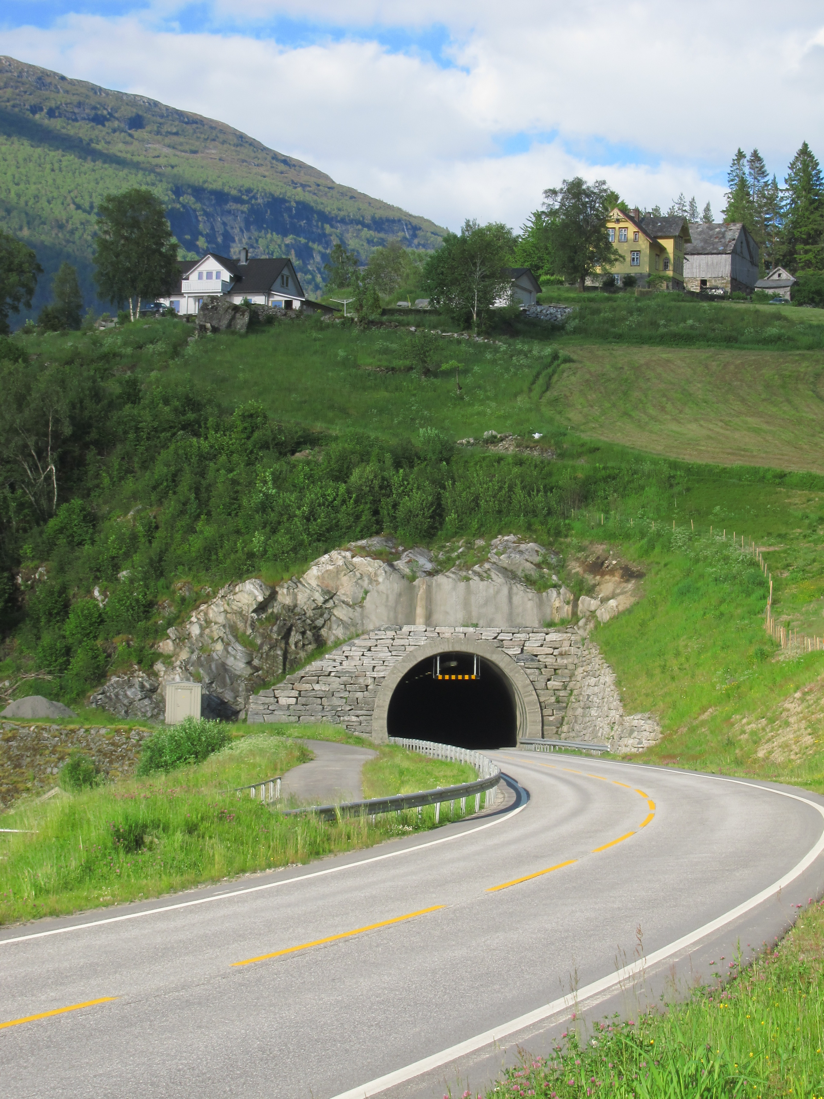 Holen tunnel on county road 60 near Olden. 12 meters above sea level